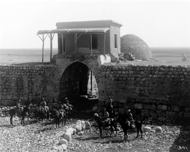 Photo of Australian Light Horsemen at Khan Ayash Other information Access unrestricted, copyright expired